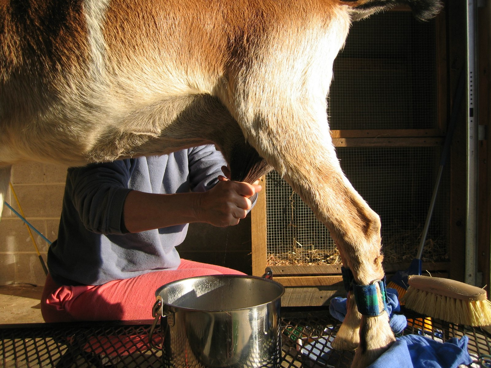 The primary purpose of my mom's farm is goat milk, cheese, and butter. It's only a "hobby farm," but she's able to keep the family in good supply.